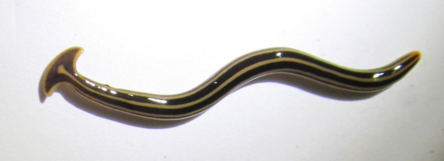 Worms called Hammerhead worms or broadhead planarians. Genus Bipalium. Found in Kerala, India Chuttikavira, pathipambu - Local names